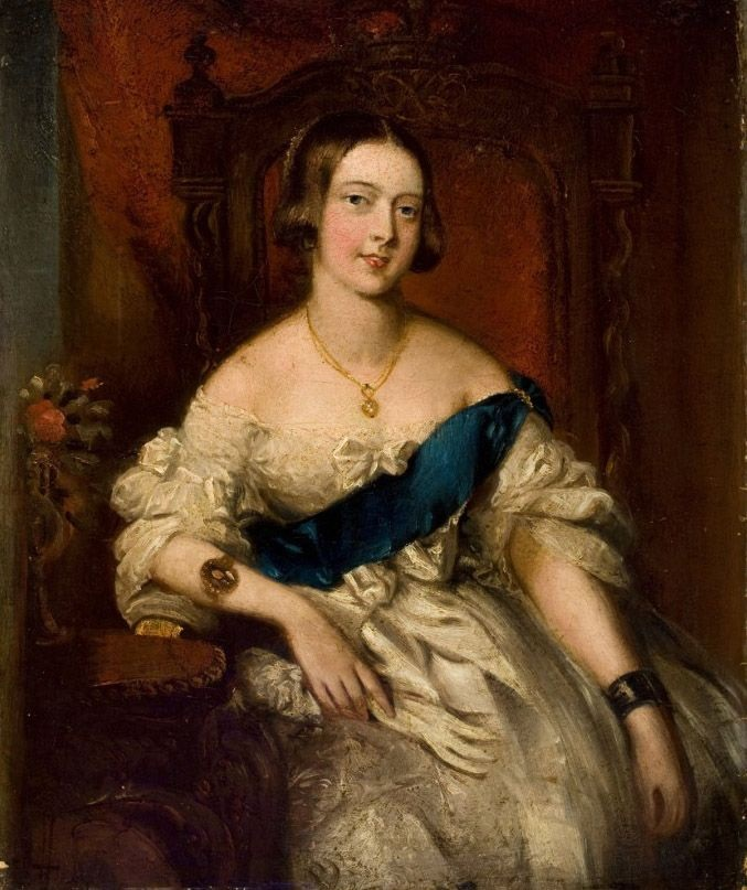 Victoria of the United Kingdom as a young woman